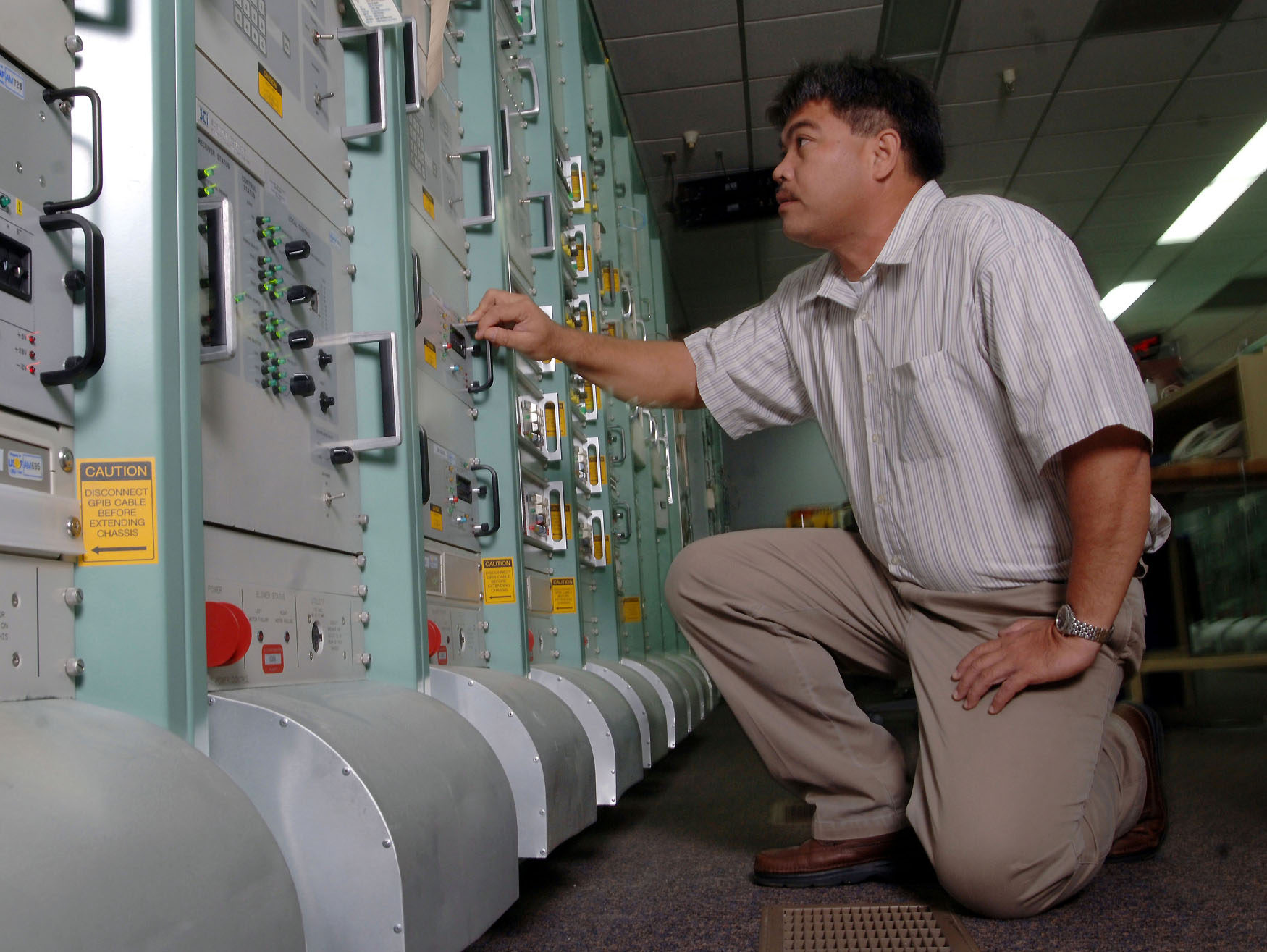 ANDERSEN AIR FORCE BASE, Guam (AFPN) -- Juan Arriola troubleshoots a switch matrix equipment during an inspection at his facility. Mr. Arriola is an automated remote tracking controller with the Detachment 5, 22nd Space Operations Squadron here. Their mission is to execute on demand, real-time, command and control operations for launch and operations of 170 Department of Defense, national, allied and civilian satellites. (U.S. Air Force photo by Master Sgt. Val Gempis)